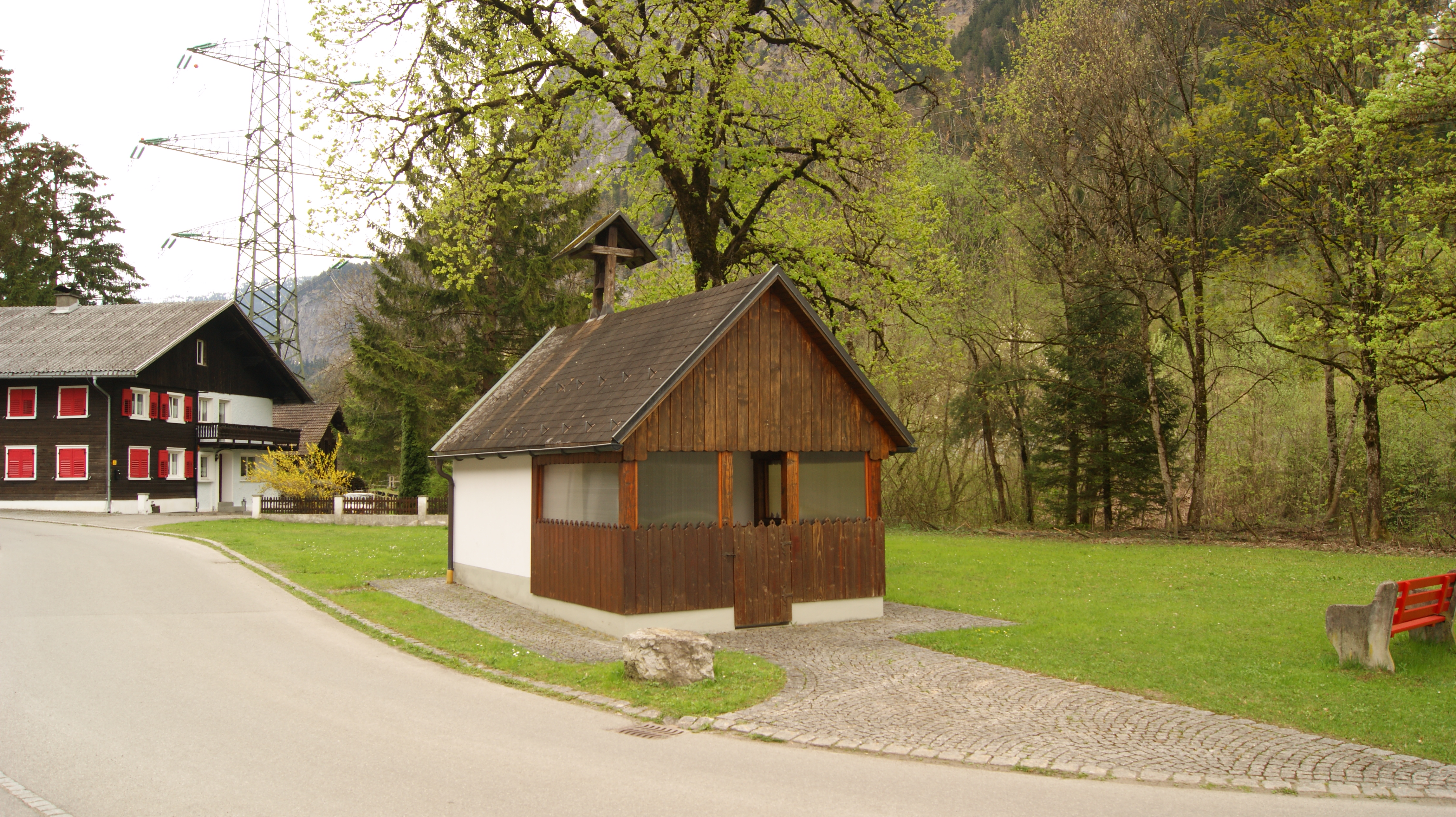 Listed Saint Mary of Help chapel at Muehleplatz in Innerbraz, Vorarlberg, Austria. Built around 1630, originally dedicated to St. Valentine. Altar figures date from the late 17th century.